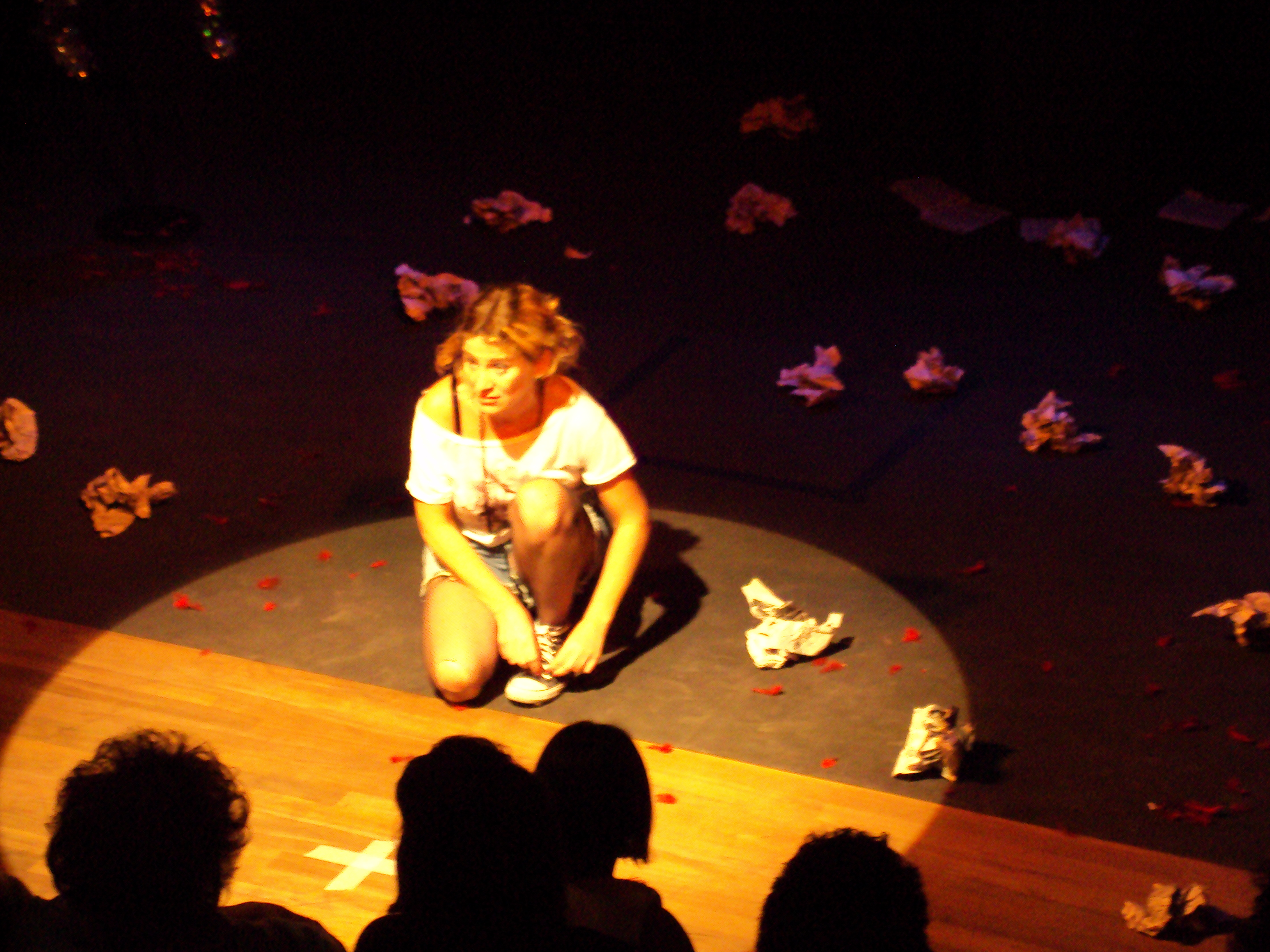 2013 en mdp